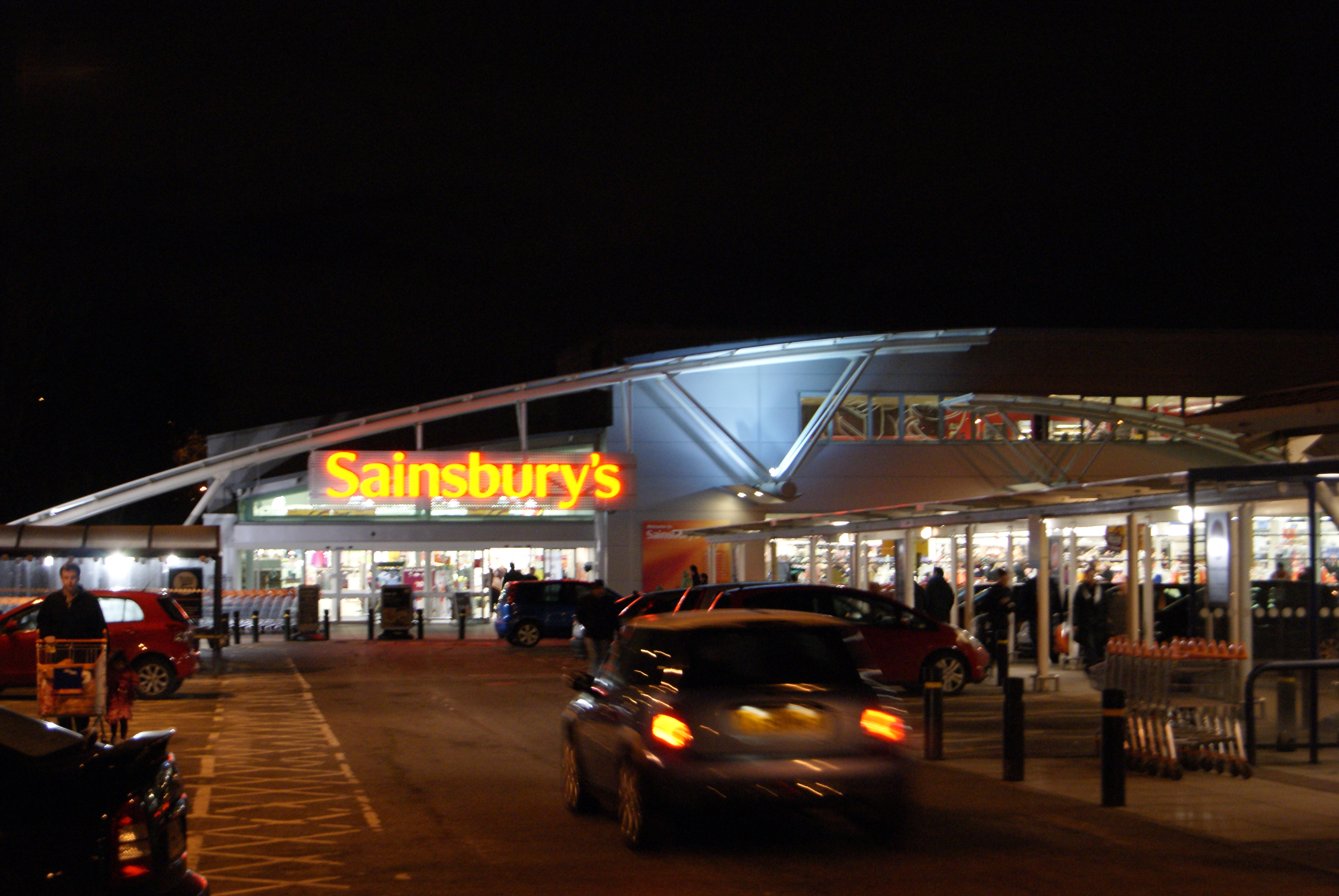 Sainsbury's at the Moor Allerton District Centre, Moor Allerton, Leeds. Taken on the evening of Wednesday the 10th of February 2010.